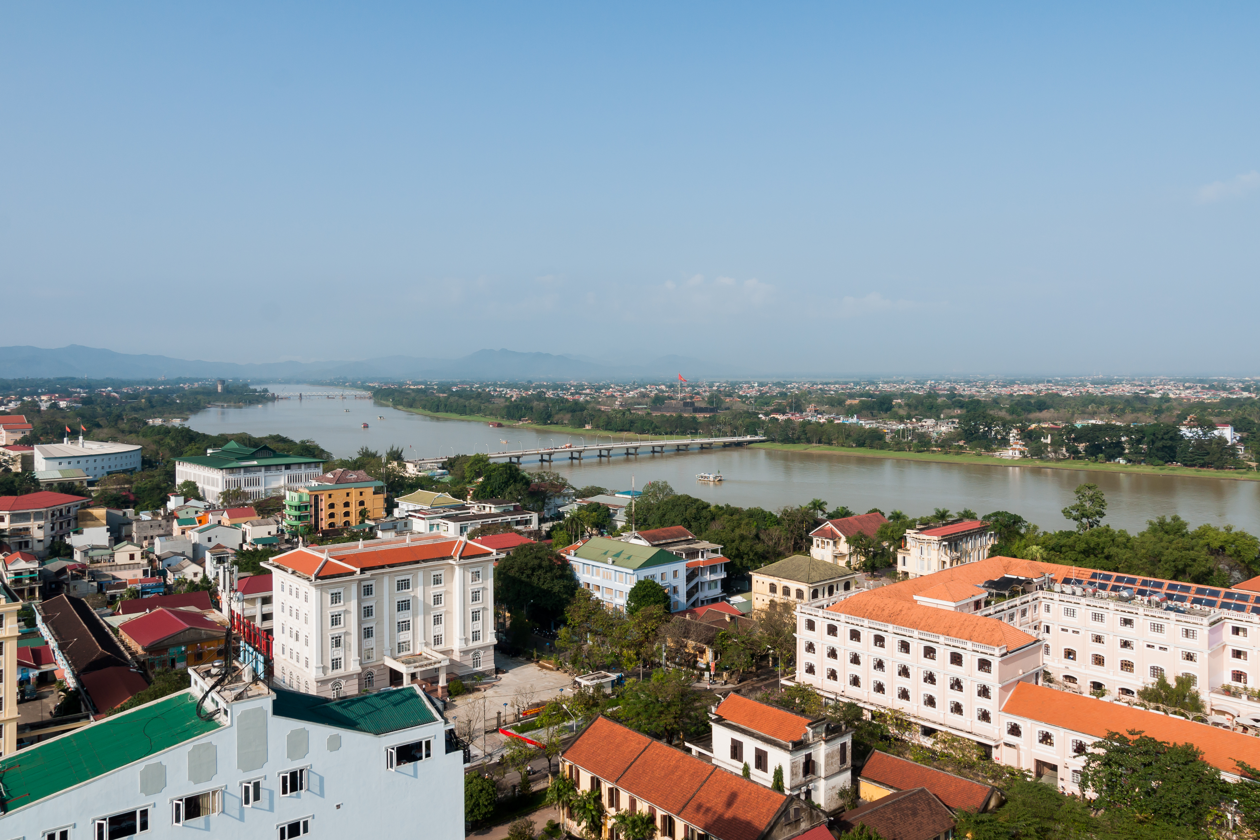 Hue, Vietnam: The perfume river (Hương Giang) at Huế with Phú Xuân Bridge in the foreground and the Bach Ho Bridge in the background.